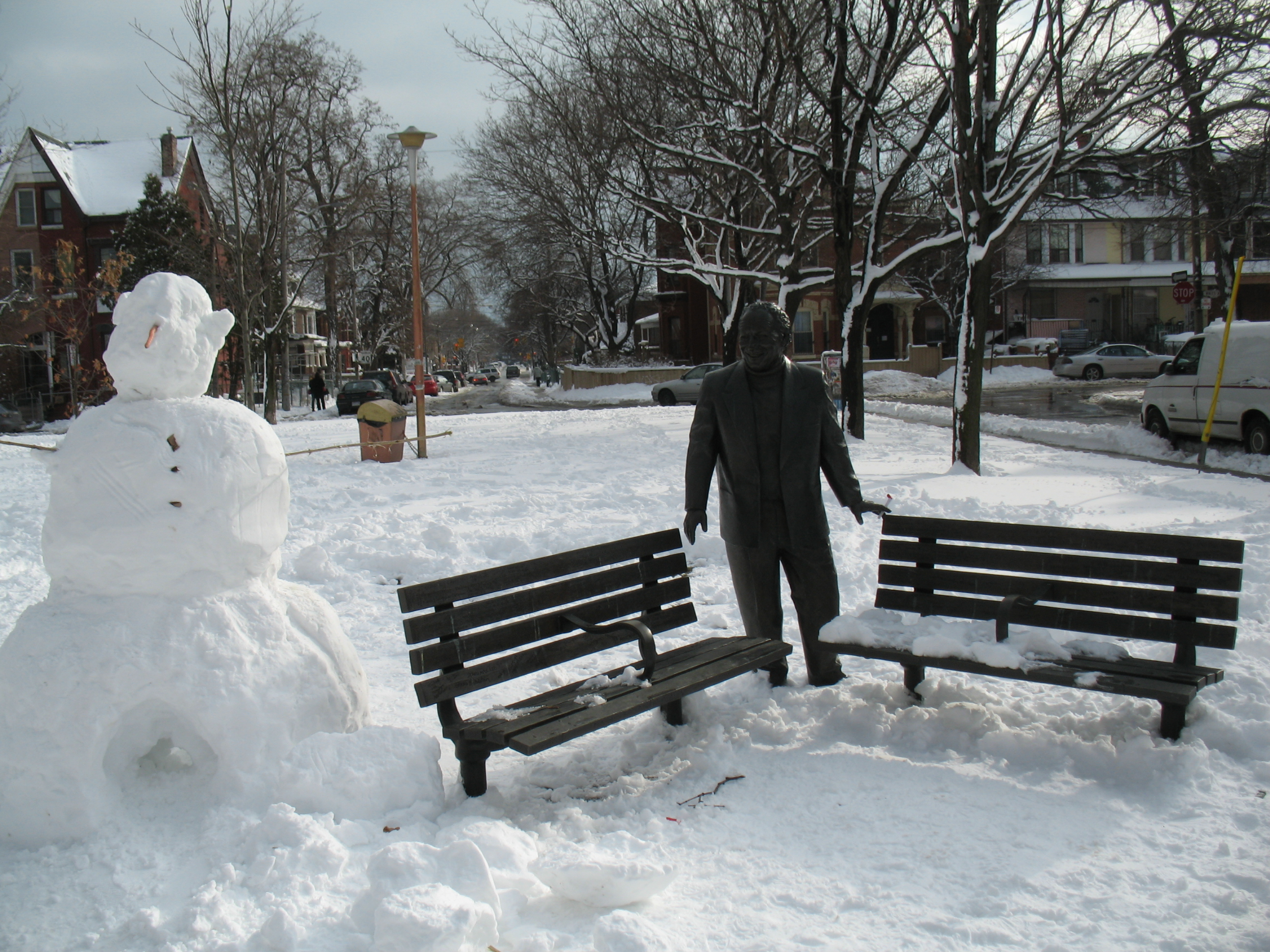 Statue of Al Waxman and snowman in Bellevue Square Park, February 3, 2008